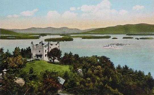 Kimball Castle and Lake Winnipesaukee, Gilford, New Hampshire. It was built in 1897-1899 by Benjamin A. Kimball.